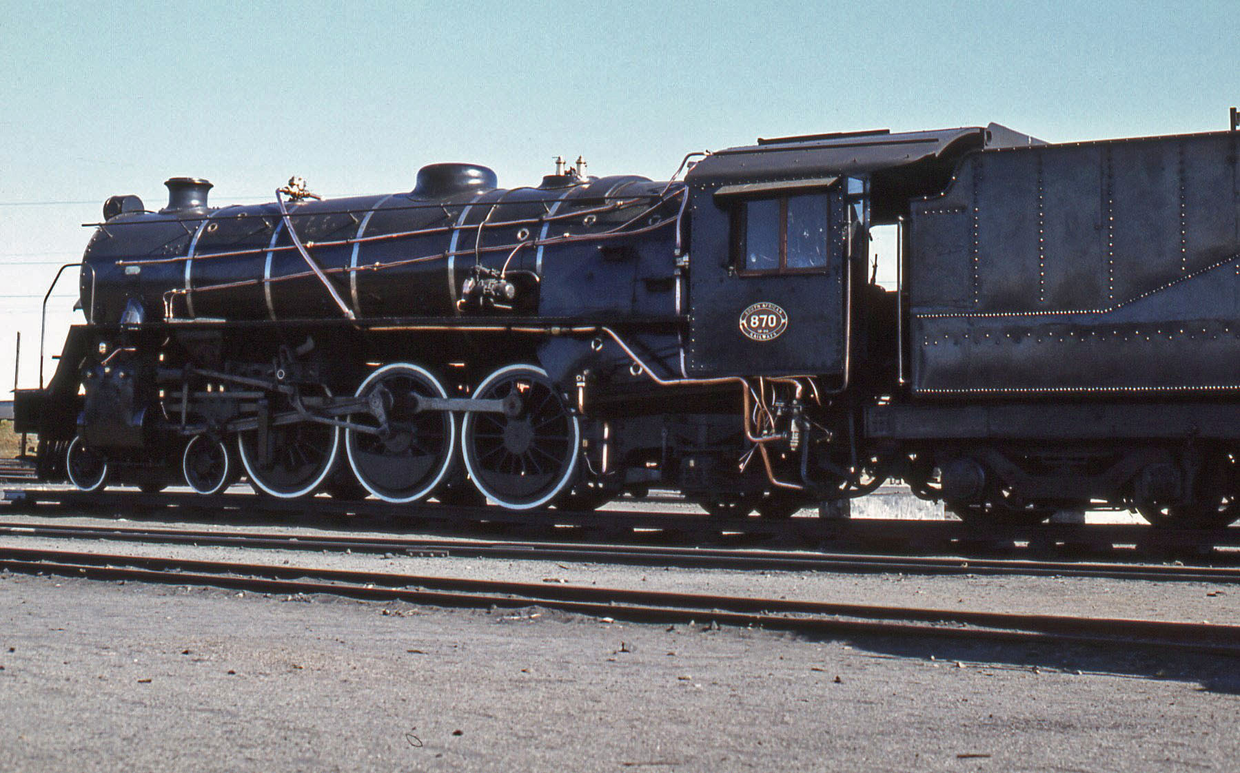 SAR Class 16DA 870 (4-6-2) Hohenzollern built Location: Bloemfontein Depot